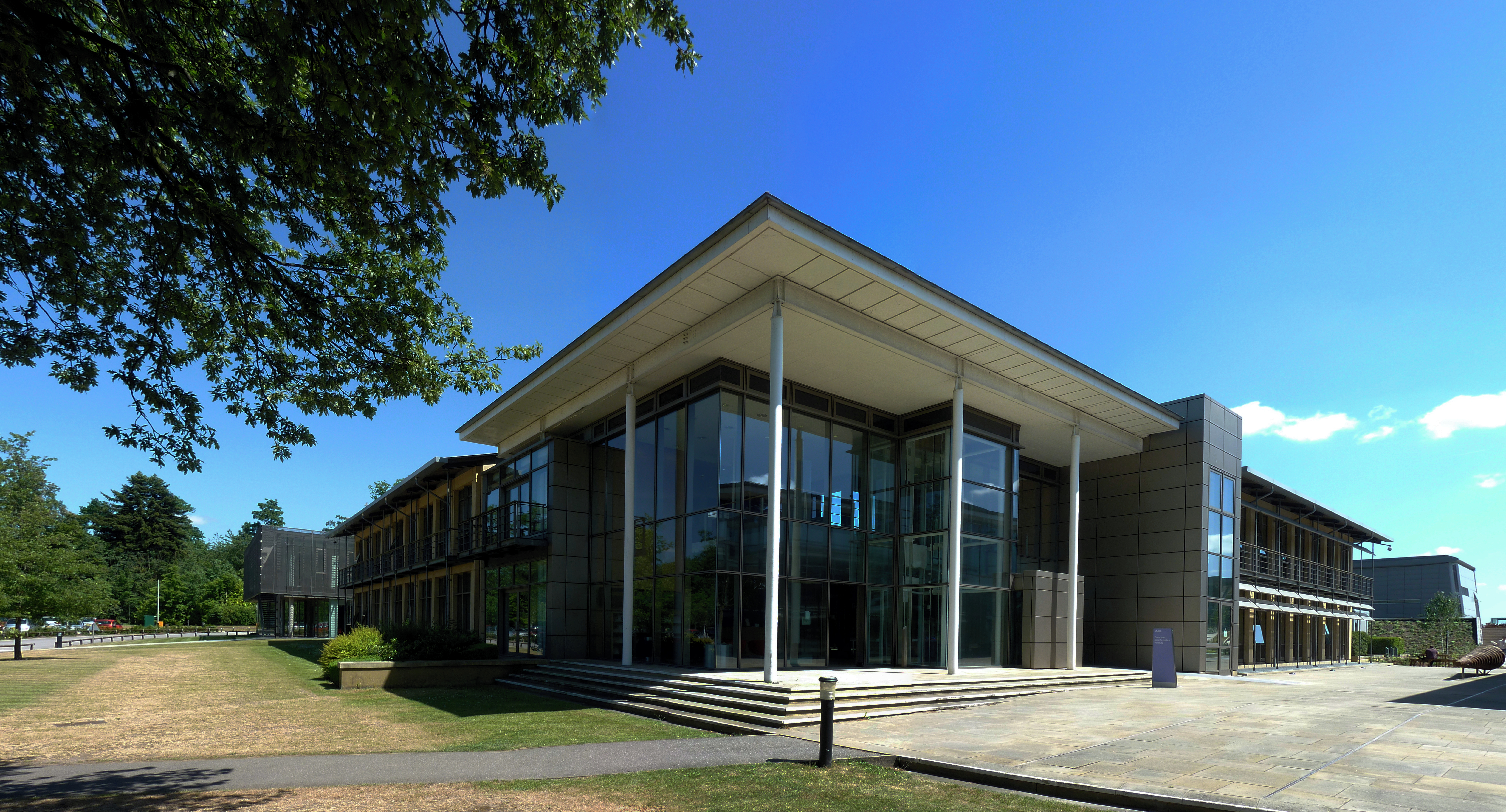 European Bioinformatics Institute, Hinxton, Cambridge, UK.